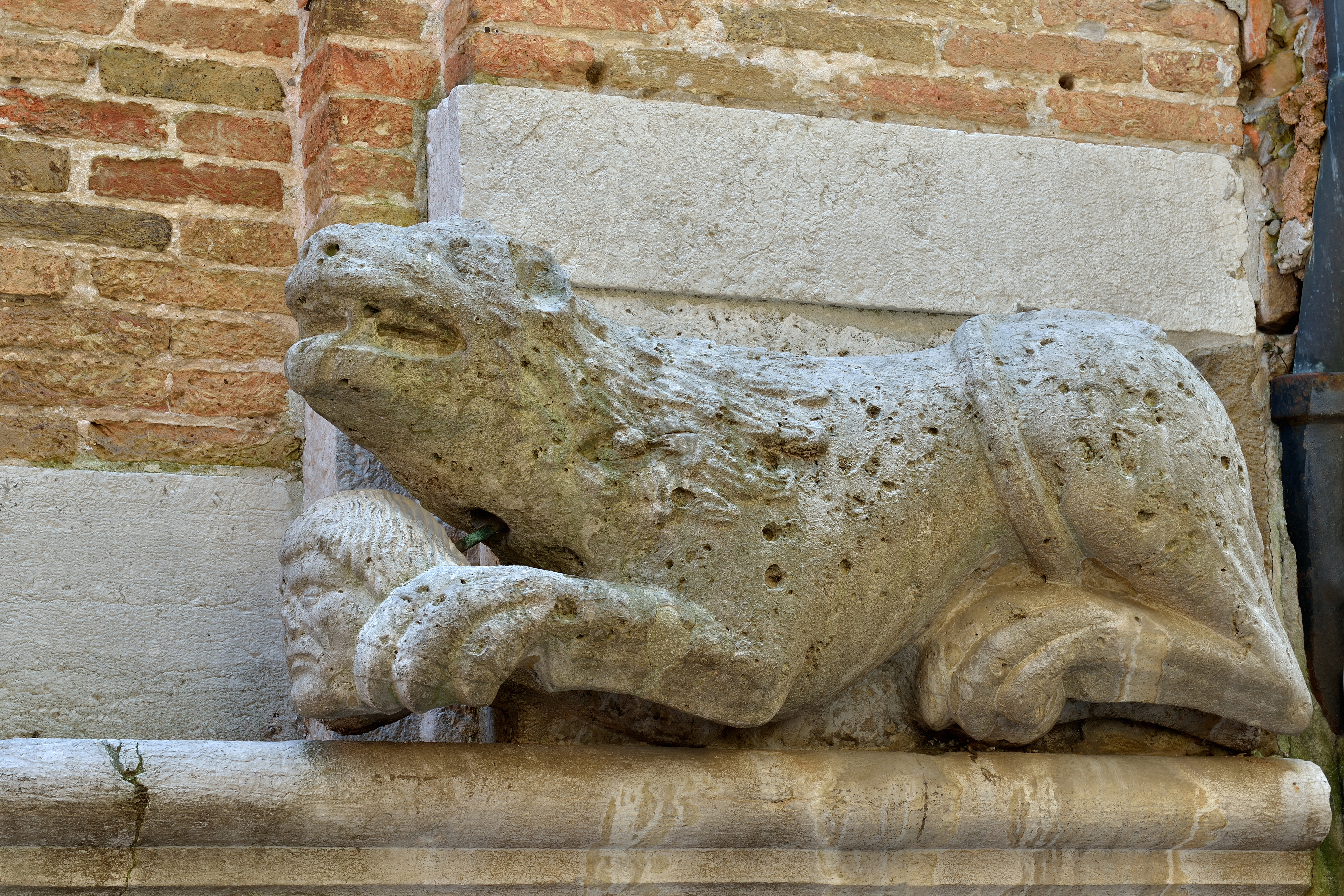 Right lion at the base of the belltower of the San Polo (church) in Venice